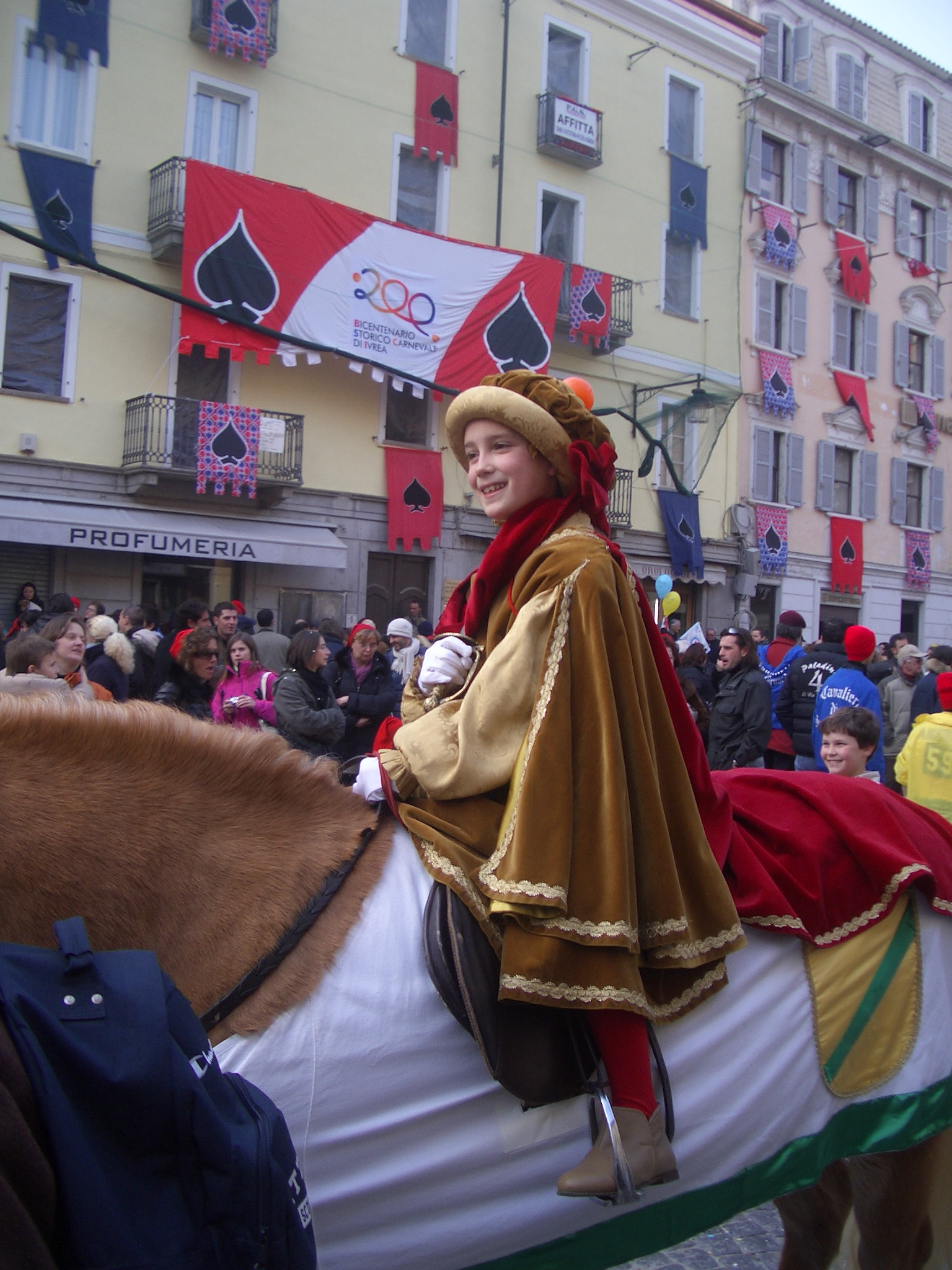 Carnival of Ivrea, Abbà (One of the so called Abbots)